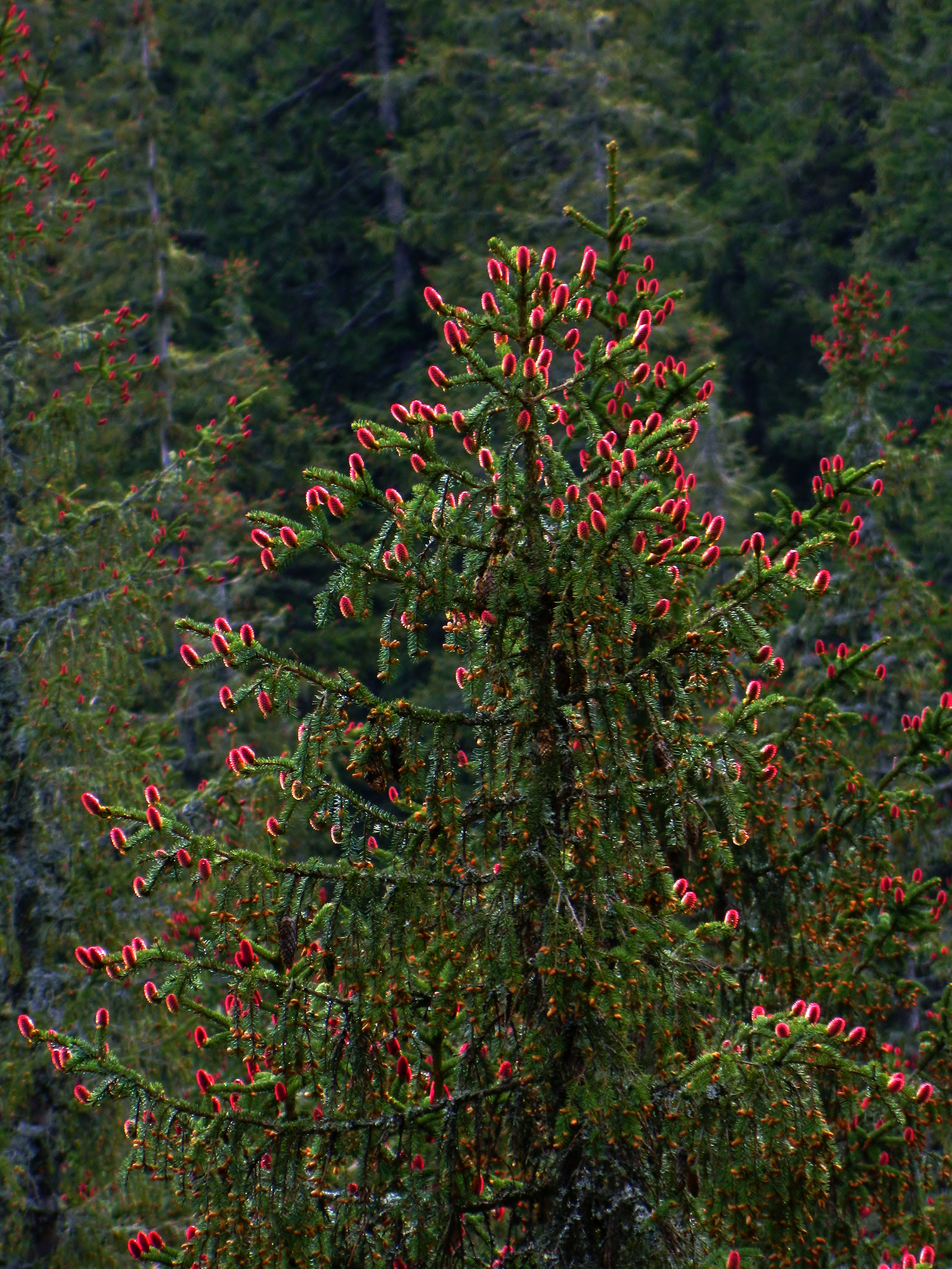 Young conifers of Norway spruce (Picea abies) in spring (Chornohora, Ukrainian Carpathians)